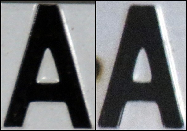 Chilean registration plate: Letter types compared after and before types was changed with the issued DP series in format 1.